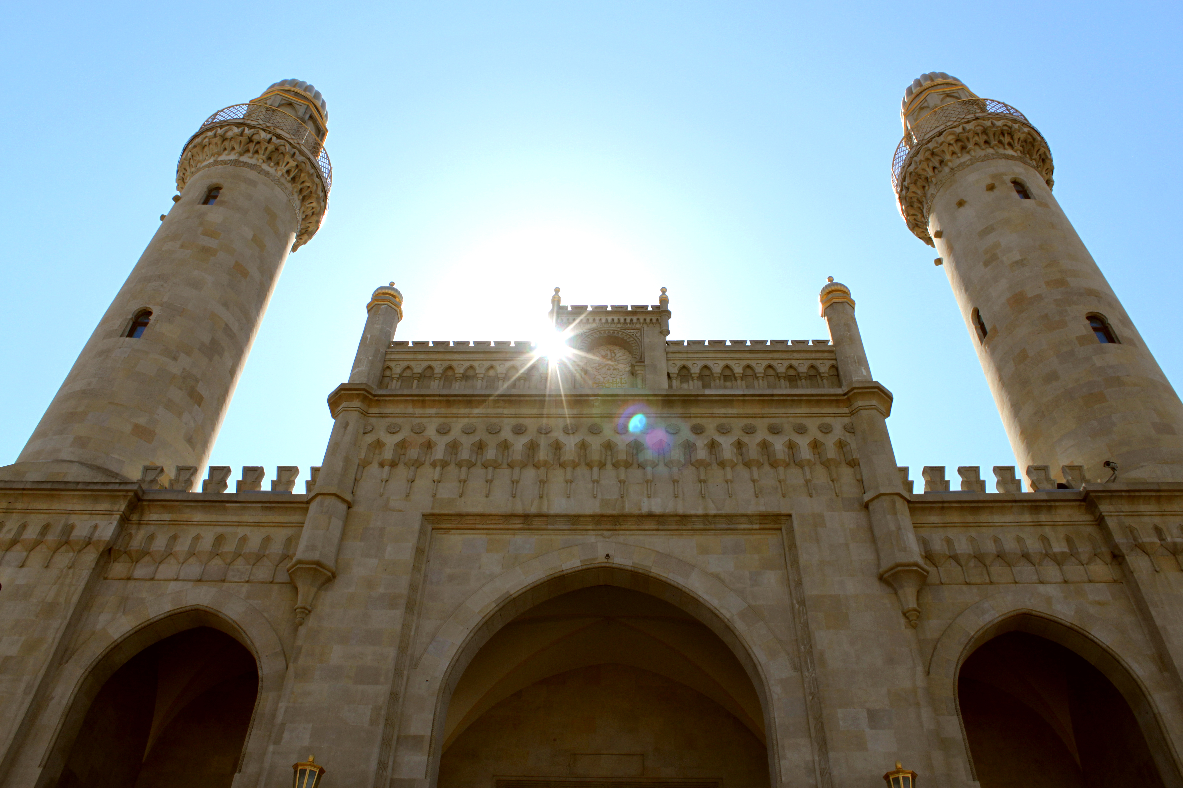 Tazapir mosque